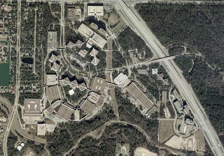 Hewlett Packard campus, formerly Compaq headquarters